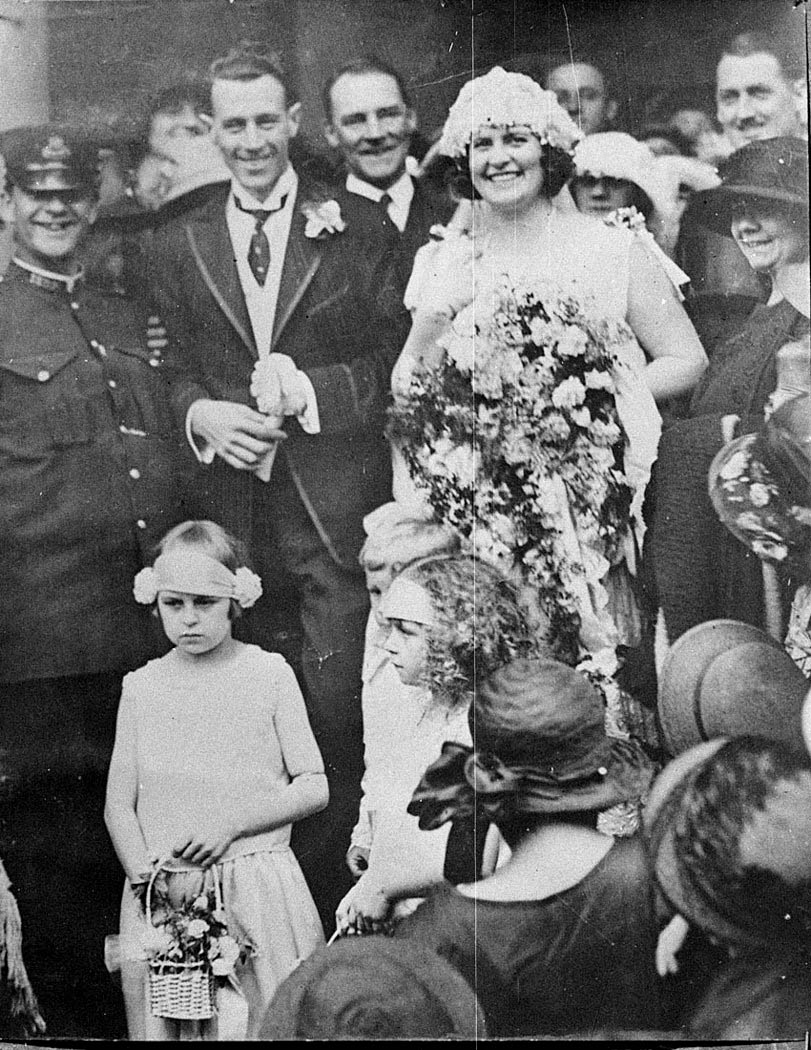 Wedding photo of Gladys Moncrieff and Thomas Henry Moore at St James' Church, Sydney on 20 May 1924.